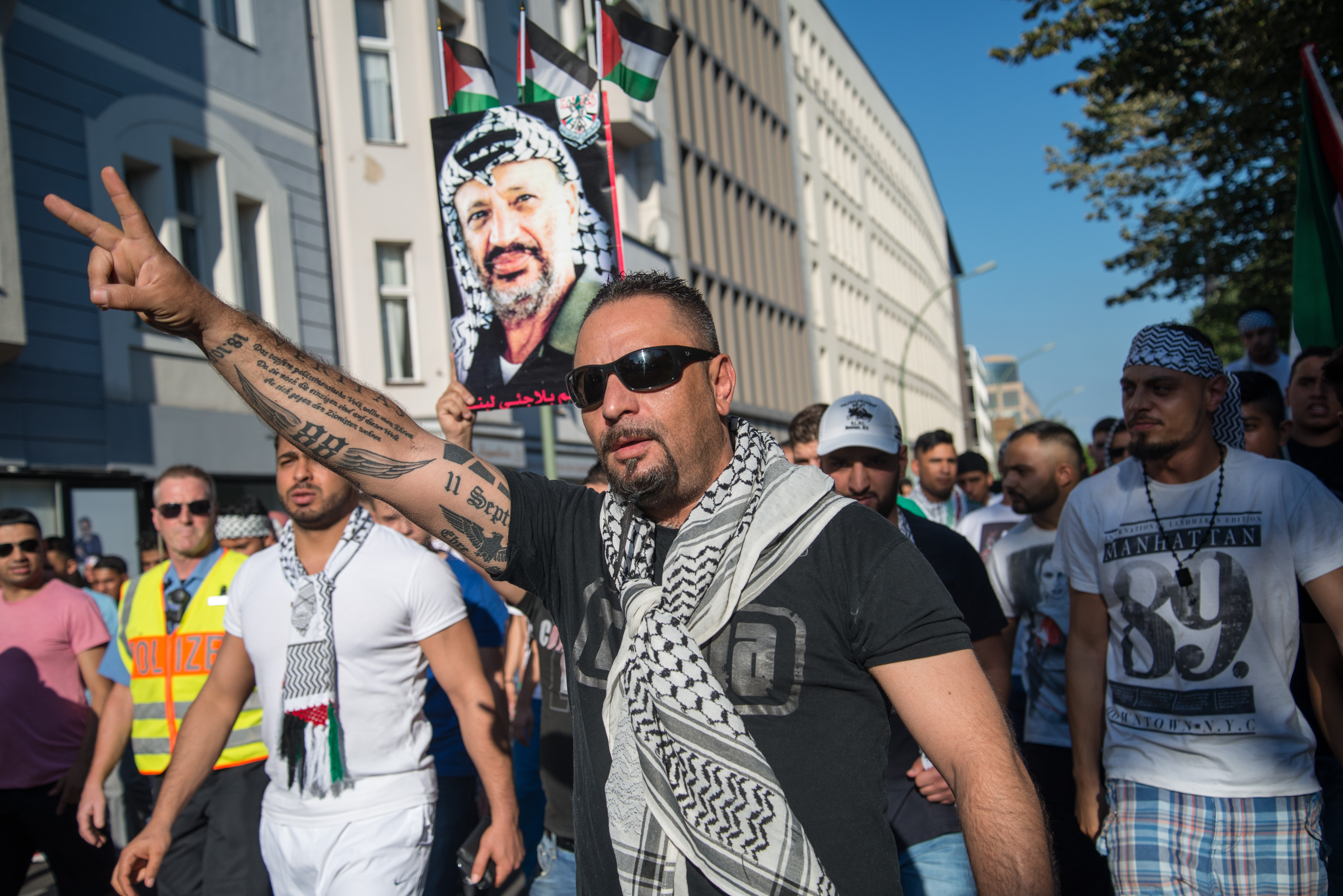 On July 17, 2014 around 1000 pro-palestinian people came together in Berlin to protest against a pro-israeli rally on Joachimsthaler Platz in Berlin.